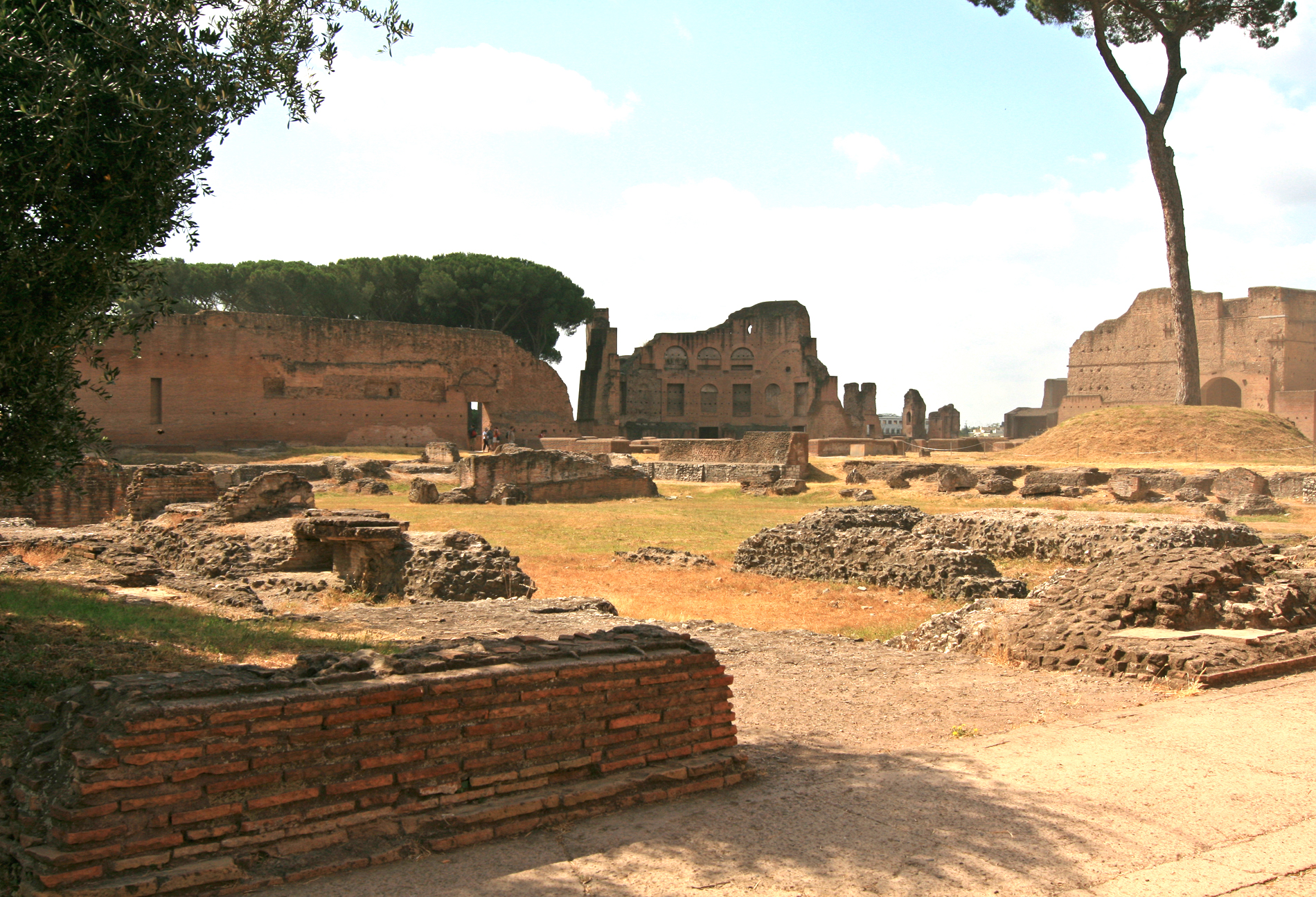 Palatine Hill, Rome.